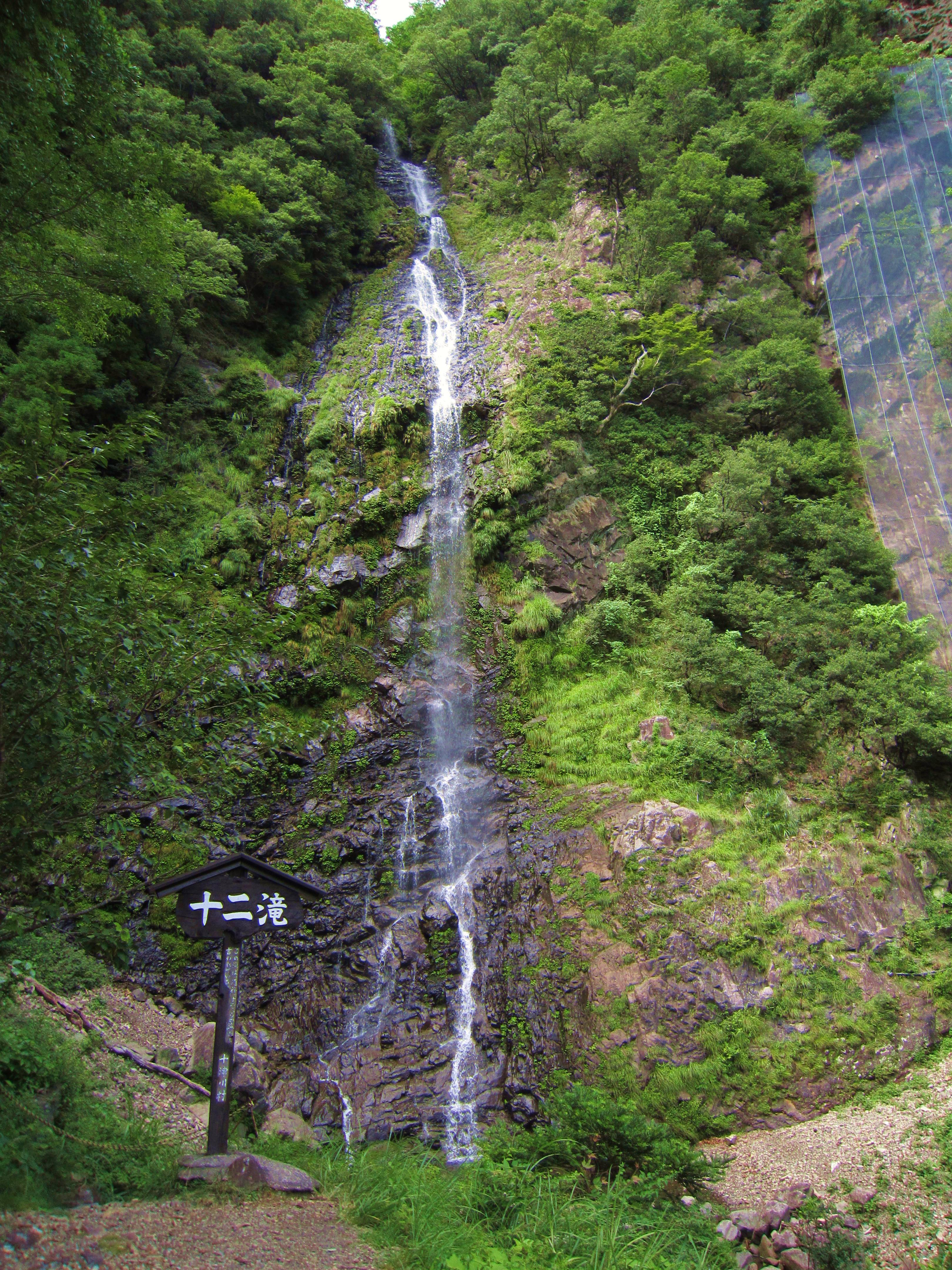 Jūnitaki waterfall.